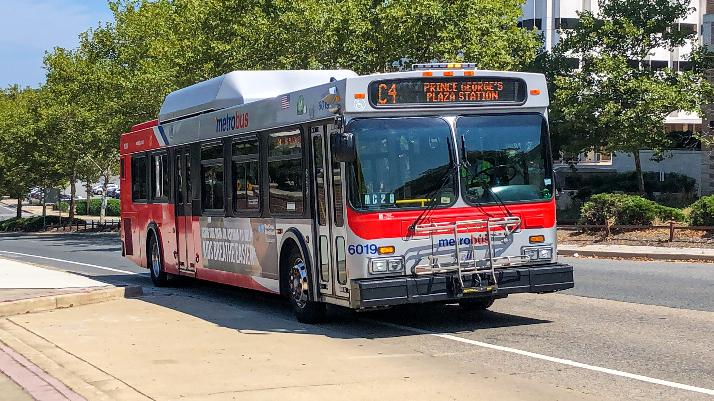 WMATA New Flyer DE40LF 6019 on Route C4